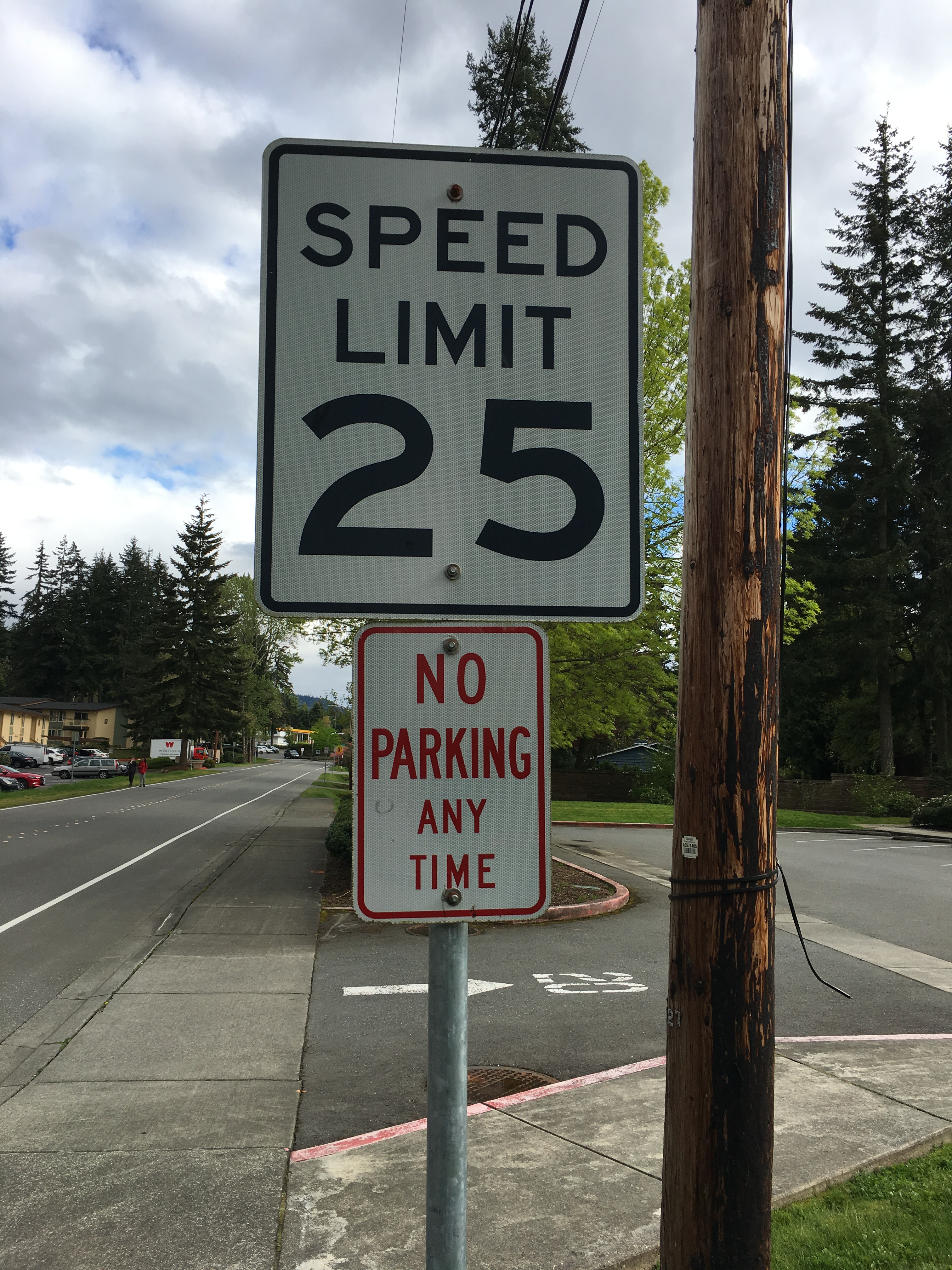 Sample traffic sign indicating speed limit taken at Bellevue, Washington